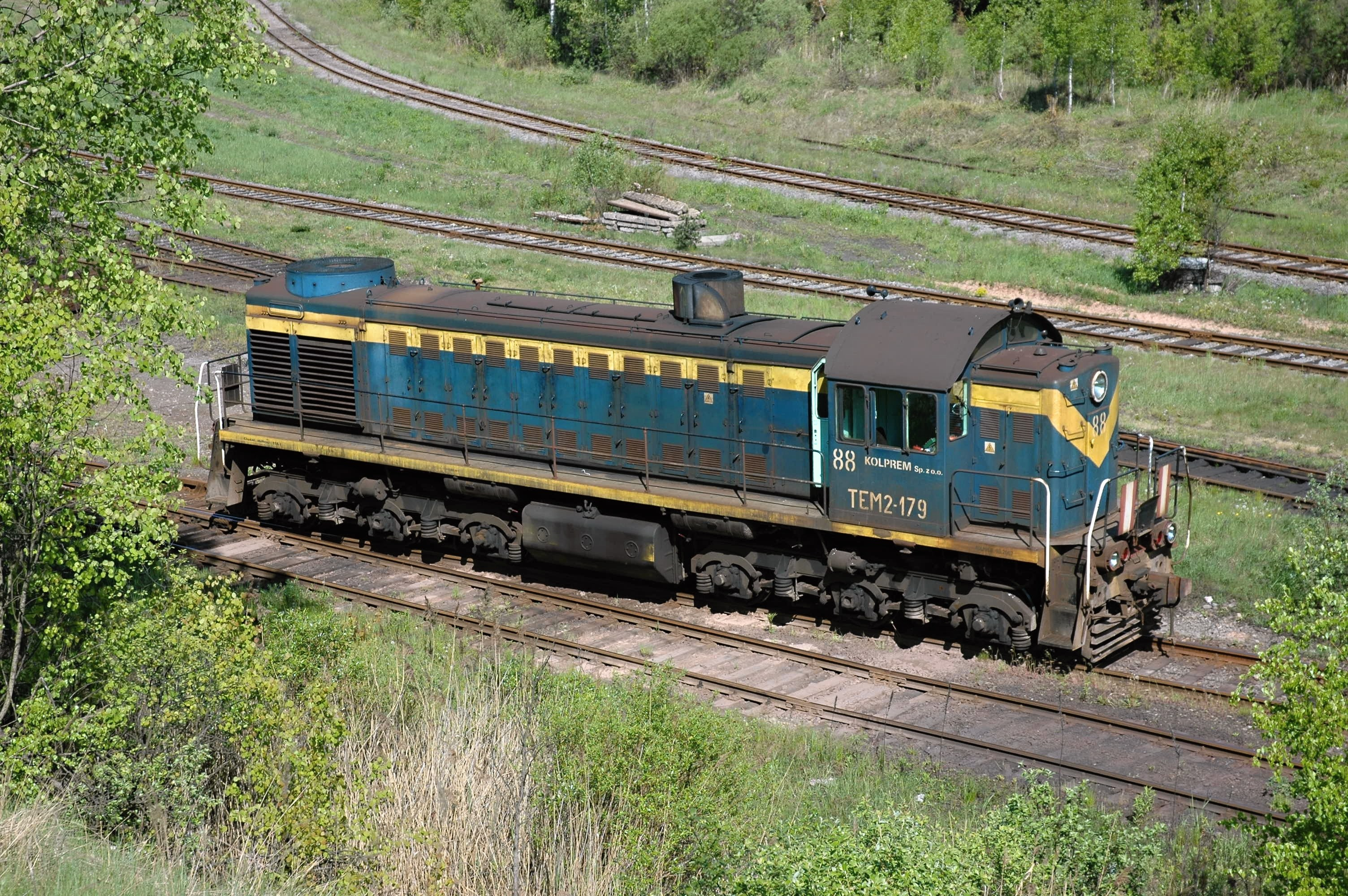 TEM2-179 of Kolprem; ArcelorMittal Poland Dąbrowa Górnicza, Poland.